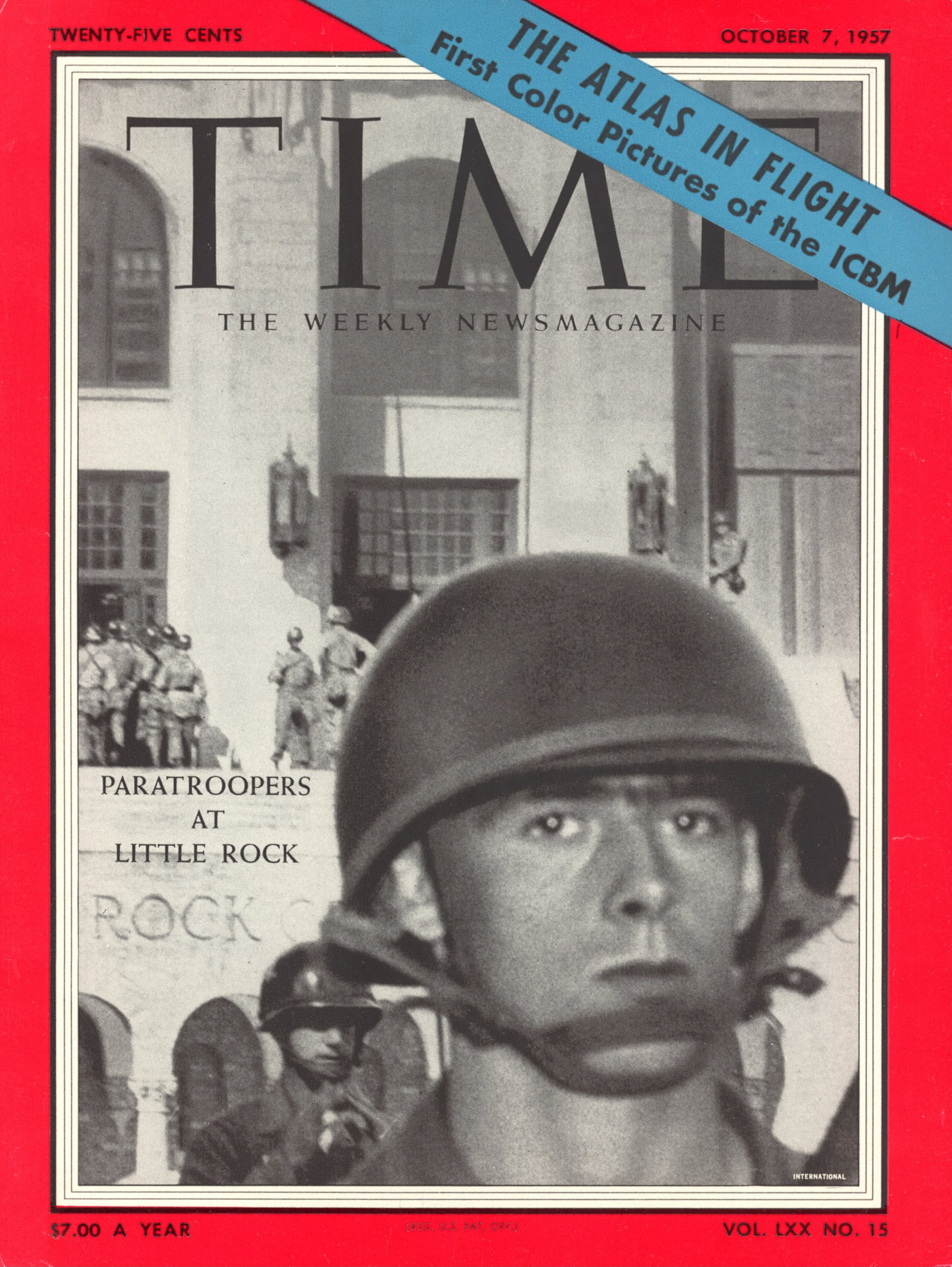 Time magazine, Volume 70 Issue 15. Front cover is a photograph of a young U.S. Army paratrooper in battle gear outside the all-white Central High School in Little Rock, Arkansas, supporting the school's integration.